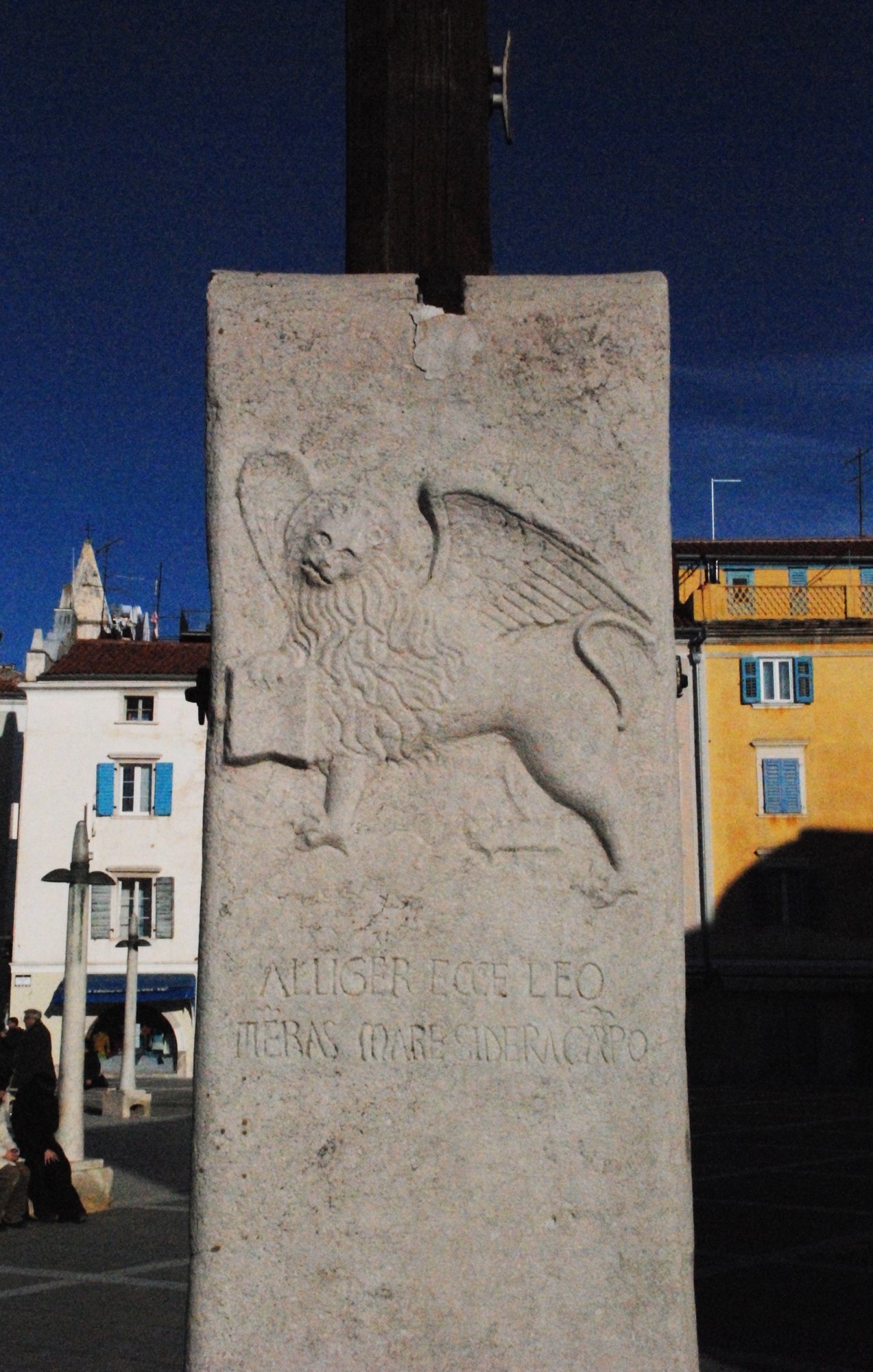 One of the columns at Tartini Square with a depiction of a winged lion, the symbol of St. Mark the Evangelist, the patron of Venice. The Latin inscription translates: "Look at the winged lion, grabbing territories, seas, and stars." On special occasions, the column beared the flag of Venice.[1]